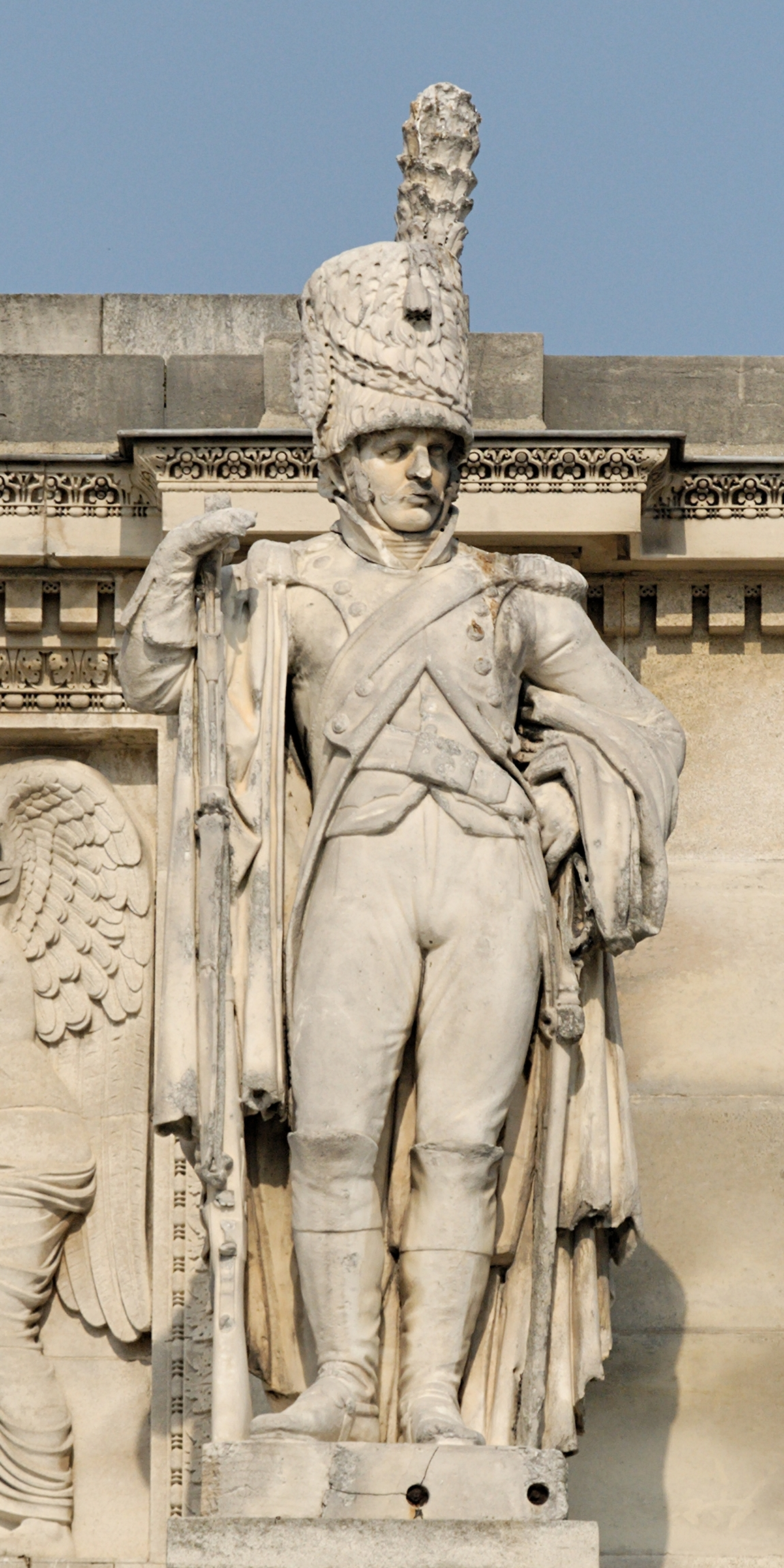 Carabinier, by Joseph Chinard (1756–1813) DescriptionFrench sculptorDate of birth/death12 February 175620 June 1813Location of birth/deathLyonLyonWork locationFranceAuthority control : Q3099451 VIAF: 37186319 ISNI: 0000 0000 6661 8445 ULAN: 500115874 LCCN: n85148574 WGA: CHINARD, Joseph WorldCat Marble, statue from the entablement of the Arc de Triomphe du Carrousel (Louvre side), 1806-1808.